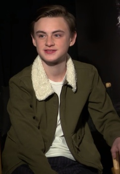 Jaeden Martell in a 2018 MTV interview